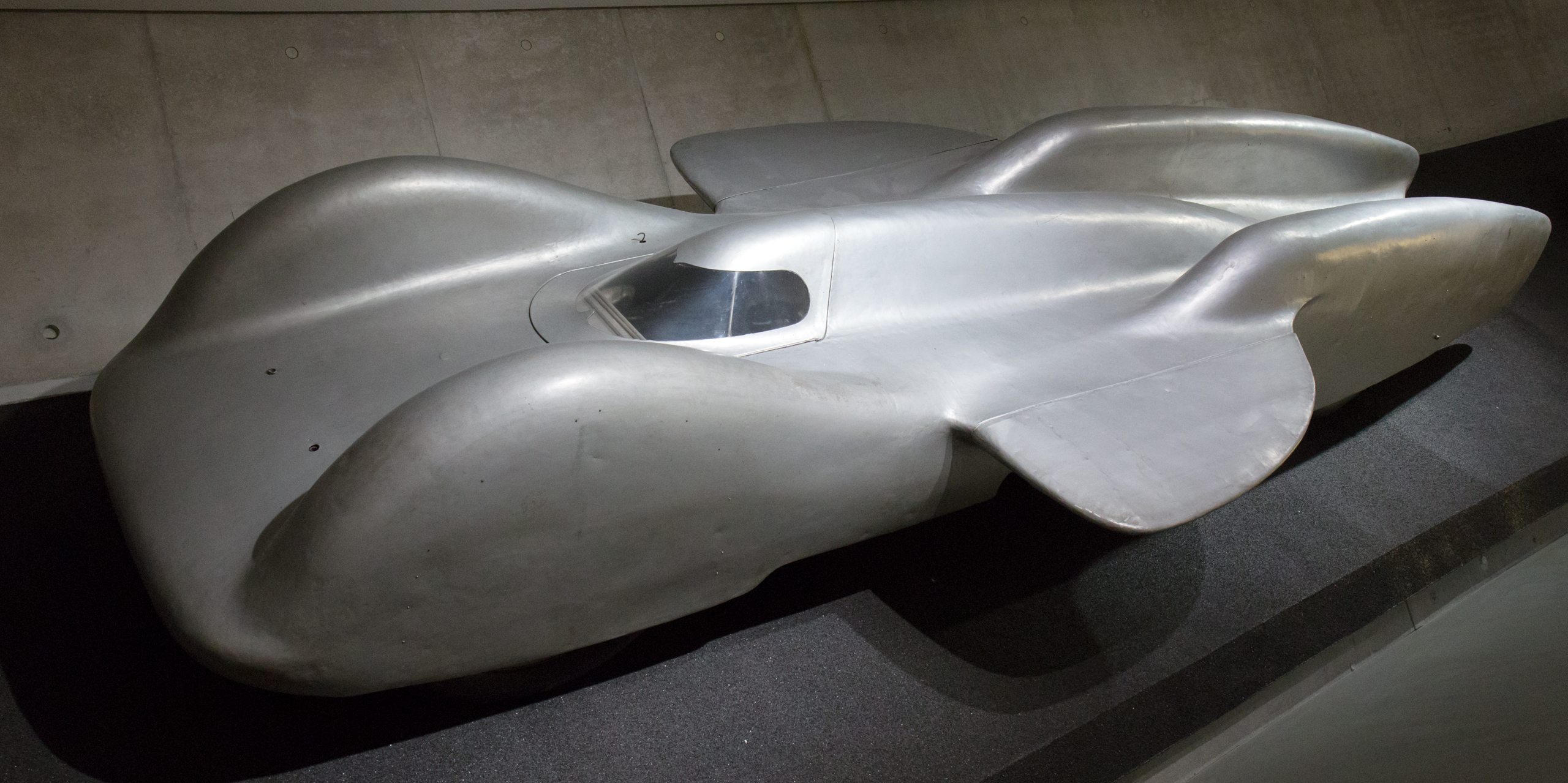 Mercedes-Benz T80